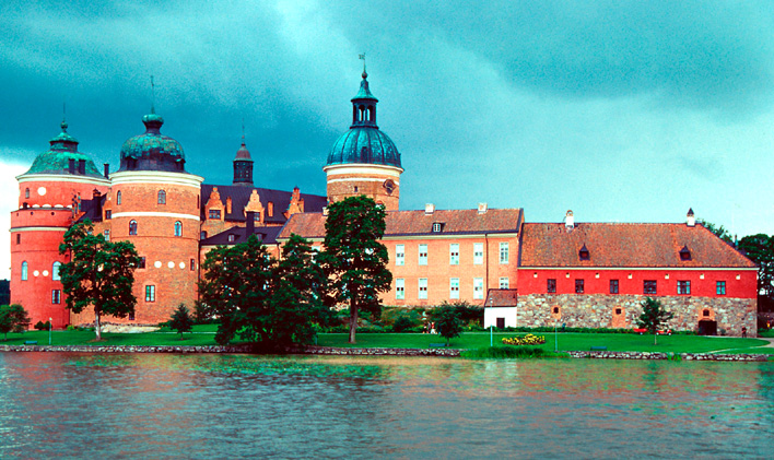 Gripsholm Castle, situated on the shores of Lake Mälaren, Mariefred (Strängnäs Municipality), Sweden.